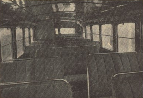 Interior of an autorail of the Vouga Valley Railway, in Portugal, future 9050 series of the Portuguese Railways. This image was originally published in the Gazeta dos Caminhos de Ferro No. 1271, of the 1st December 1940, and scanned by the Hemeroteca Municipal de Lisboa.